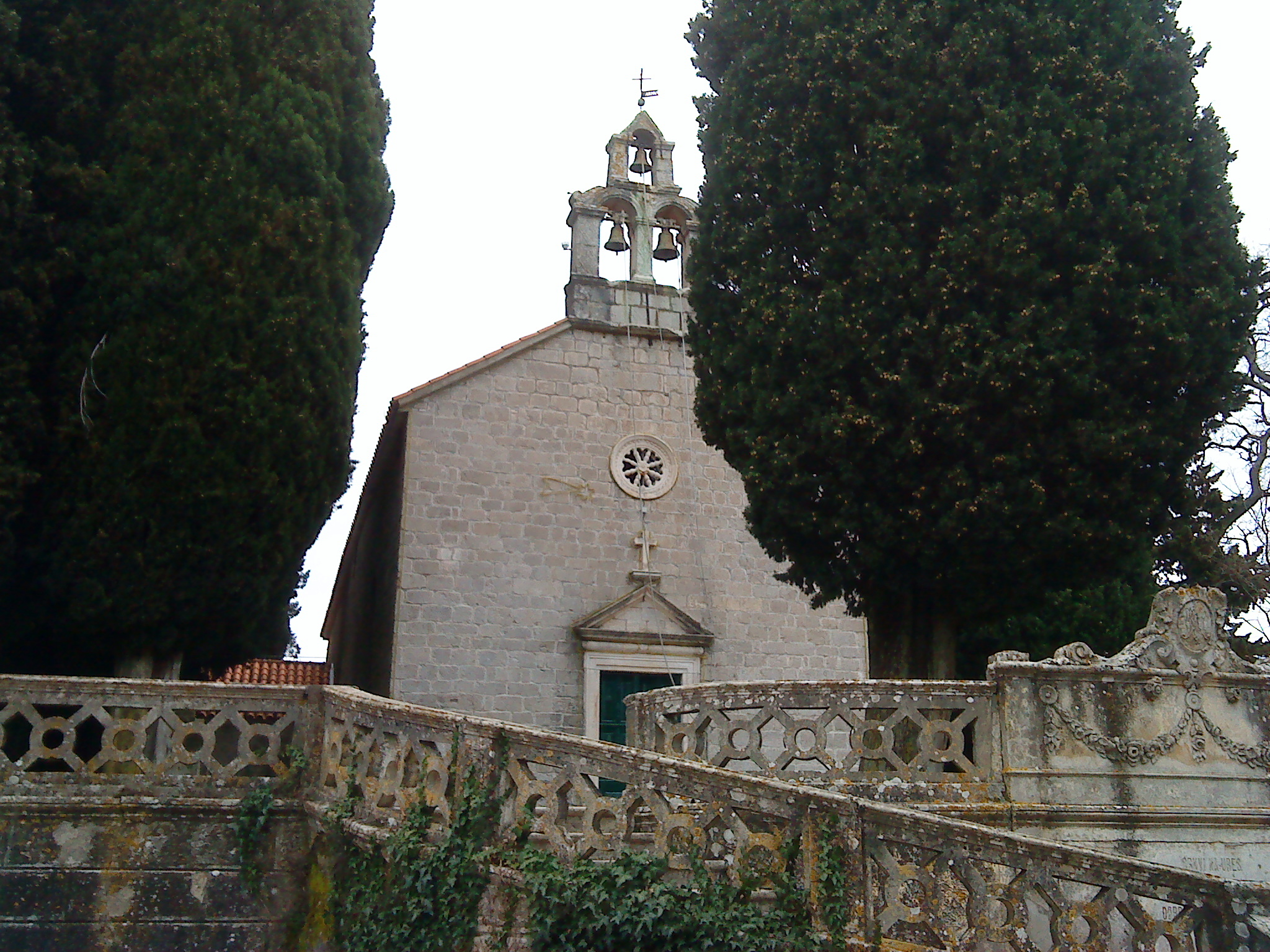 Church in Kuna Pelješka